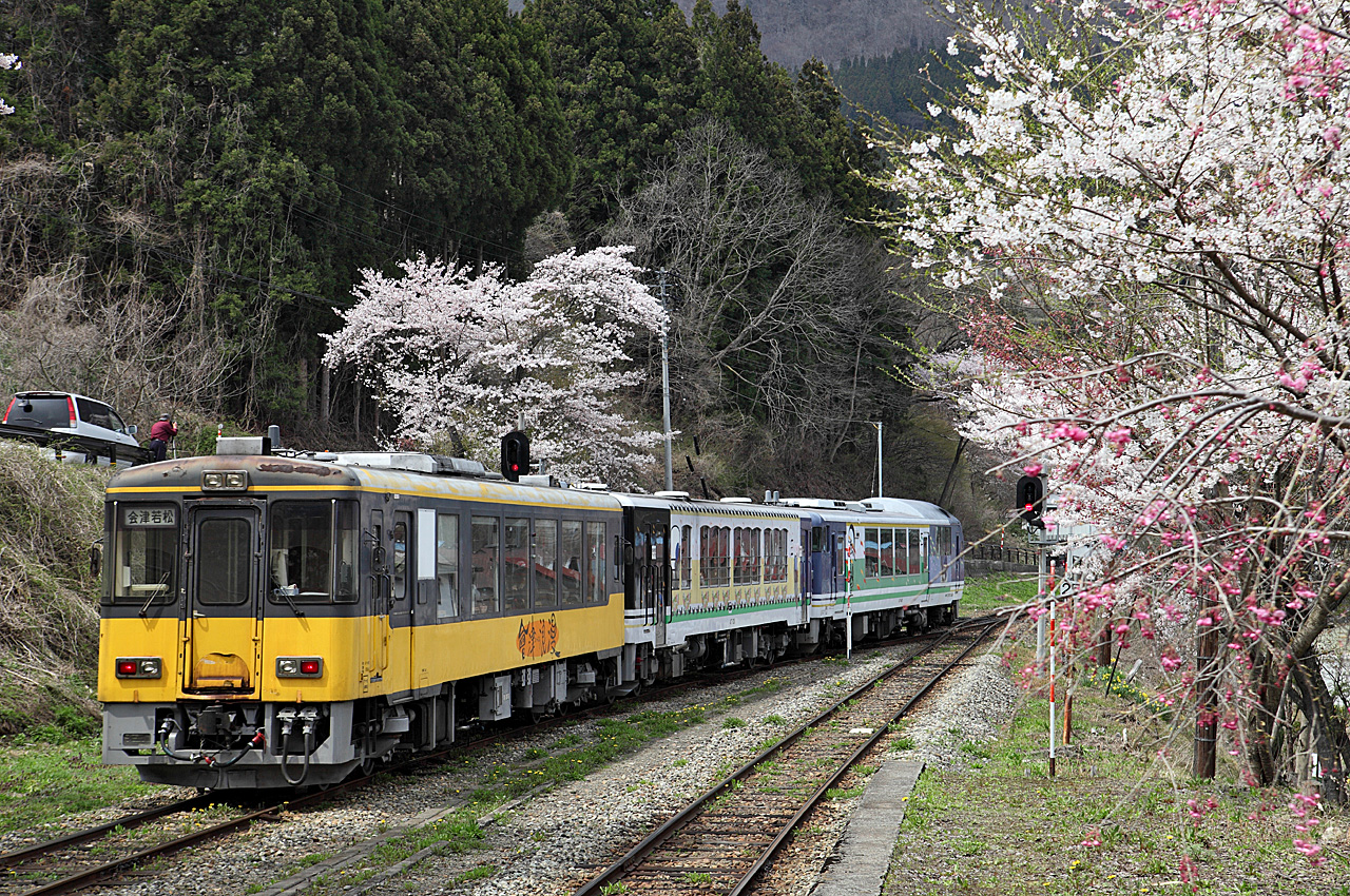 Aizu Railway Oza-Toro-Tembo Train (Type AT-100 + AT-350 + AT-400 DMU)